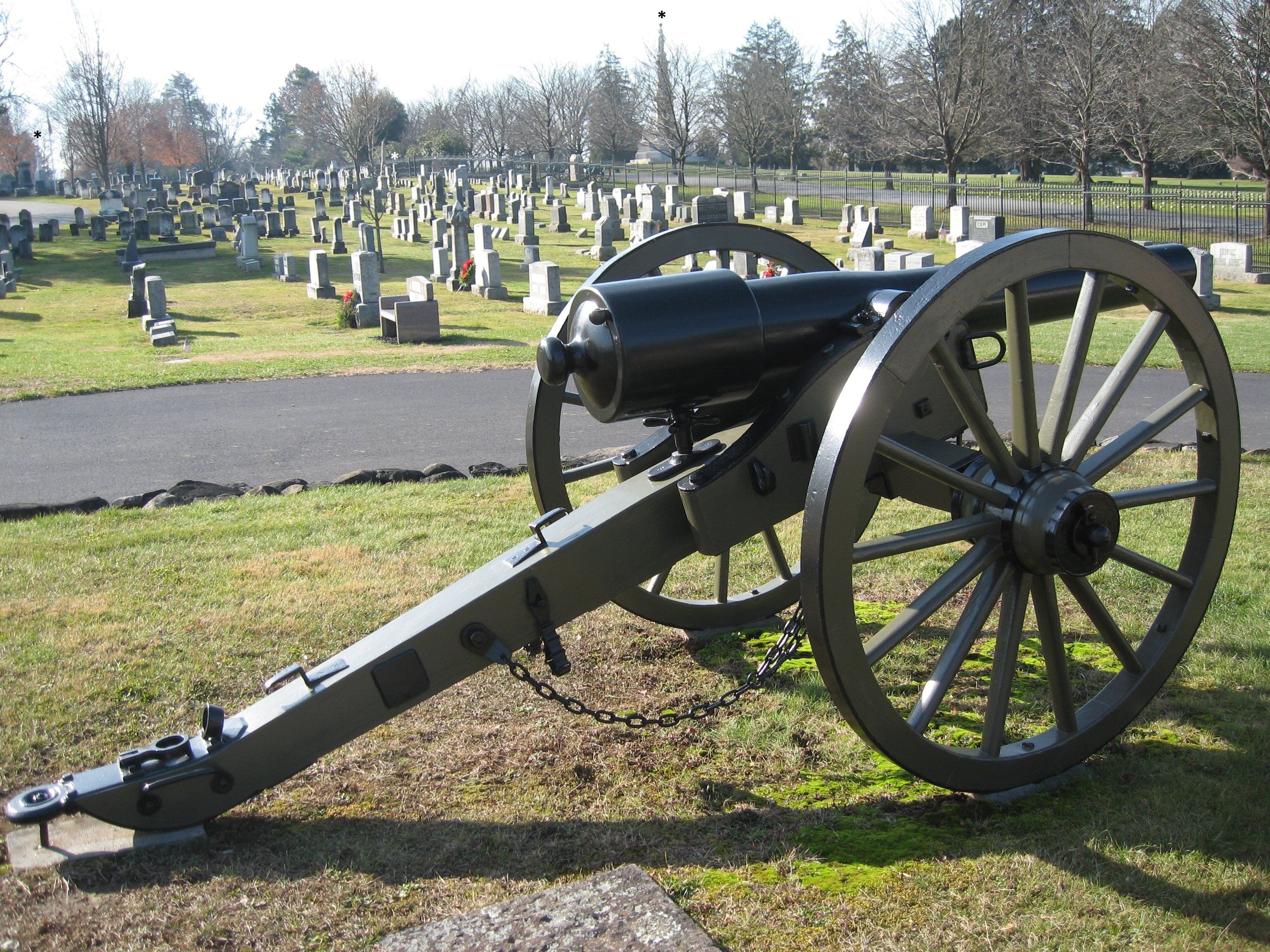 Six parrott cannons of the Fifth New York Light Artillery reside permanently within the grounds of Evergreen Cemetery, Gettysburg, Adams County. Photo shows the Soldiers' National Monument in the distant center and unknown graves within the National Cemetery on the right. Flag at the third grave of Virginia Wade is visible in the upper left, between a crease in the trees.